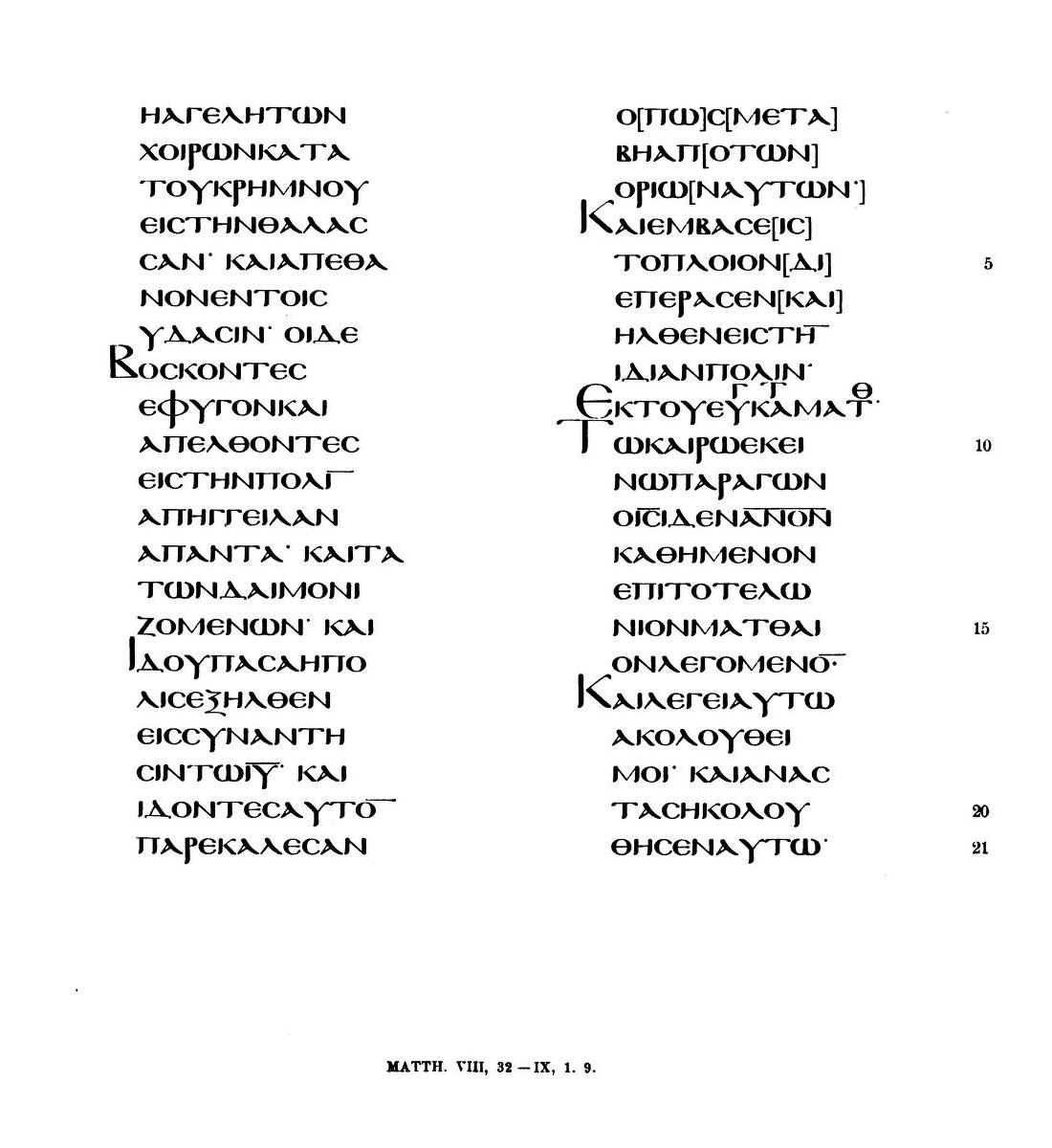 page of the codex in Tischendorf's facsimile edition (Constantin von Tischendorf, "Fragmenta Veneta Evangelistarii Palimpsesti", in: "Monumenta sacra inedita" (Leipzig 1855), vol. I, p. 201)